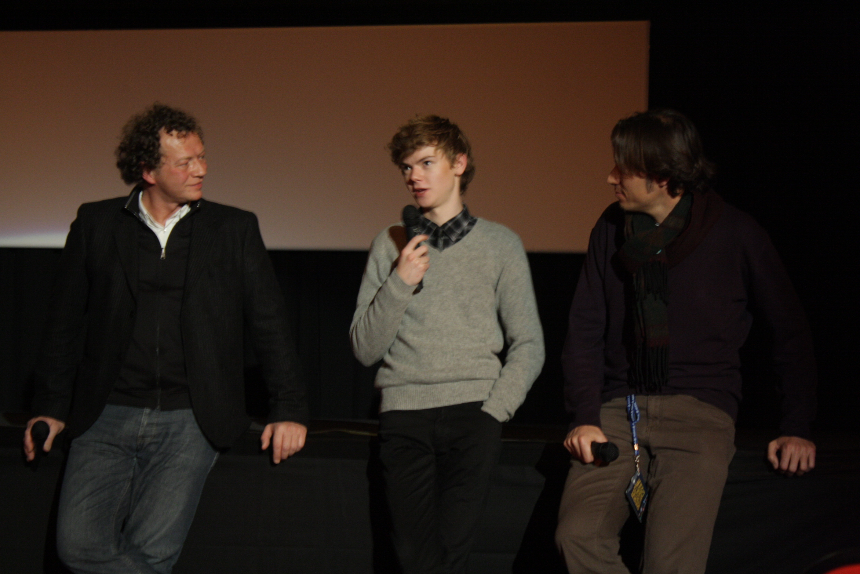 Thomas Sangster "Death of a Superhero